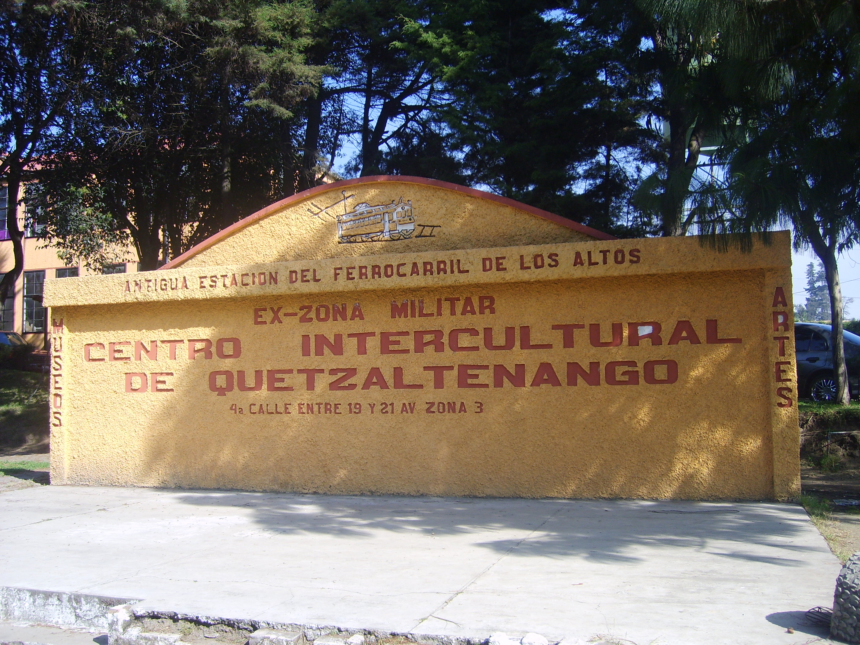 A sign in Quetzaltenango, Guatemala, commemorating the former final station of "Ferrocarril de Los Altos", a short-lived electric railroad running to Retalhueu between 1930 and 1933. After closing the railroad due to storm damage, the area was converted into a military zone. As of 2007, the buildings serve as multicultural center with a museum.